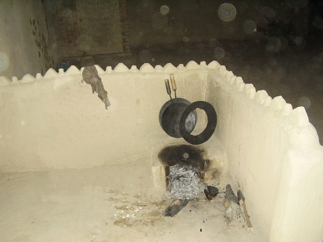 kitchen in a house in village